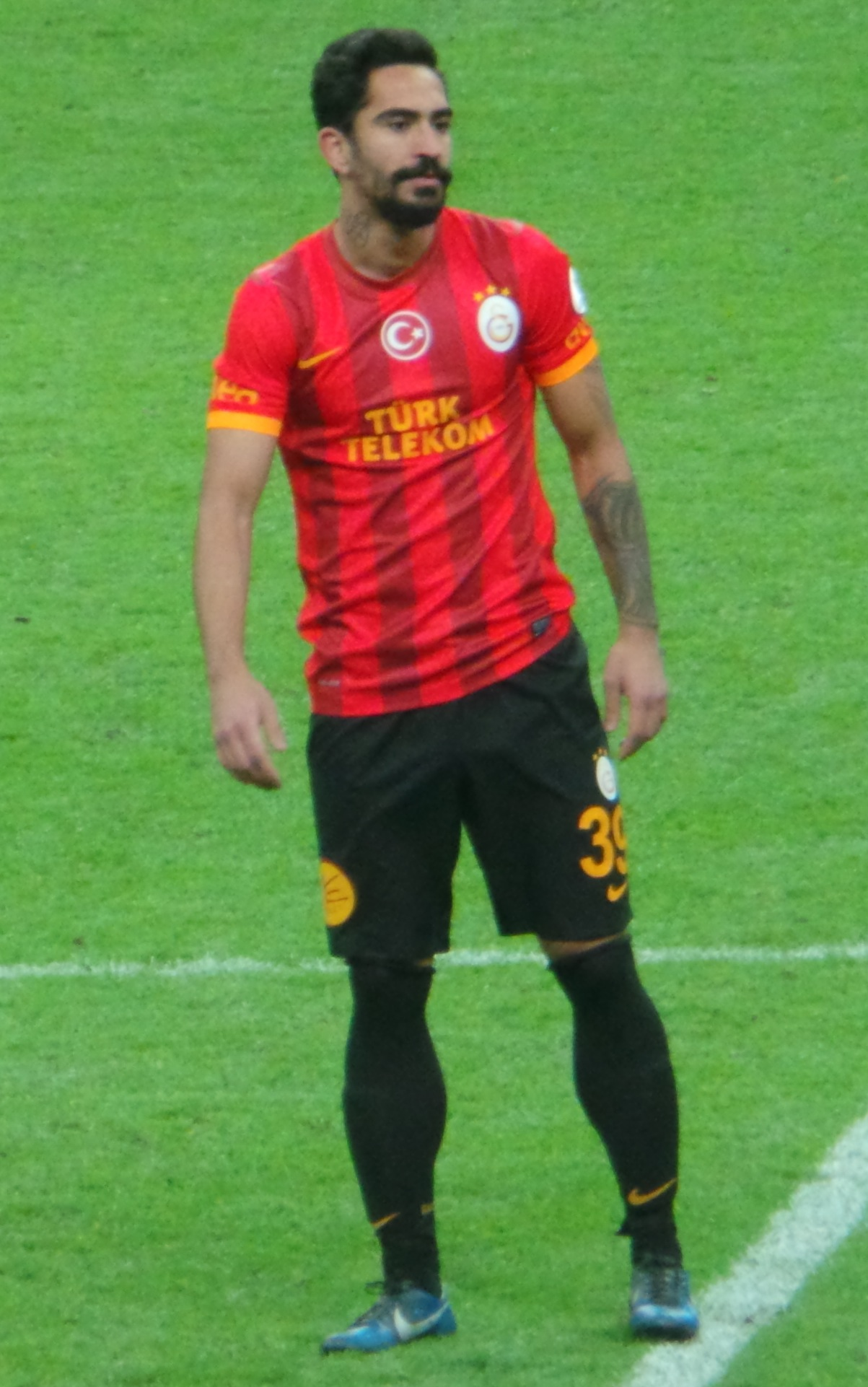 Yiğit Gökoğlan playing against Gaziantep B.Ş.B.